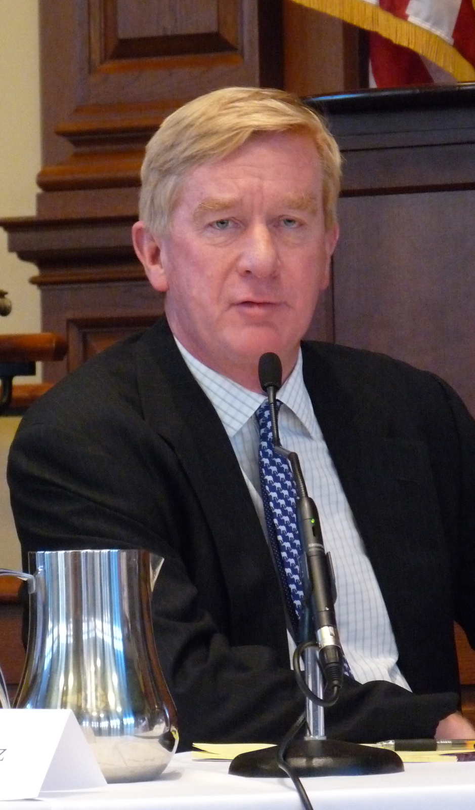 William Weld Speaks at Harvard Law School.